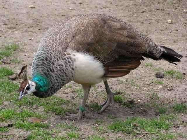 Peahen at Parsonage Farm, Bramshaw, New Forest This peahen has the run of the common land in Bramshaw, on the northeast edge of the New Forest. The 'adjacent commons' are owned by the National Trust, rather than the Crown, and different by-laws apply.